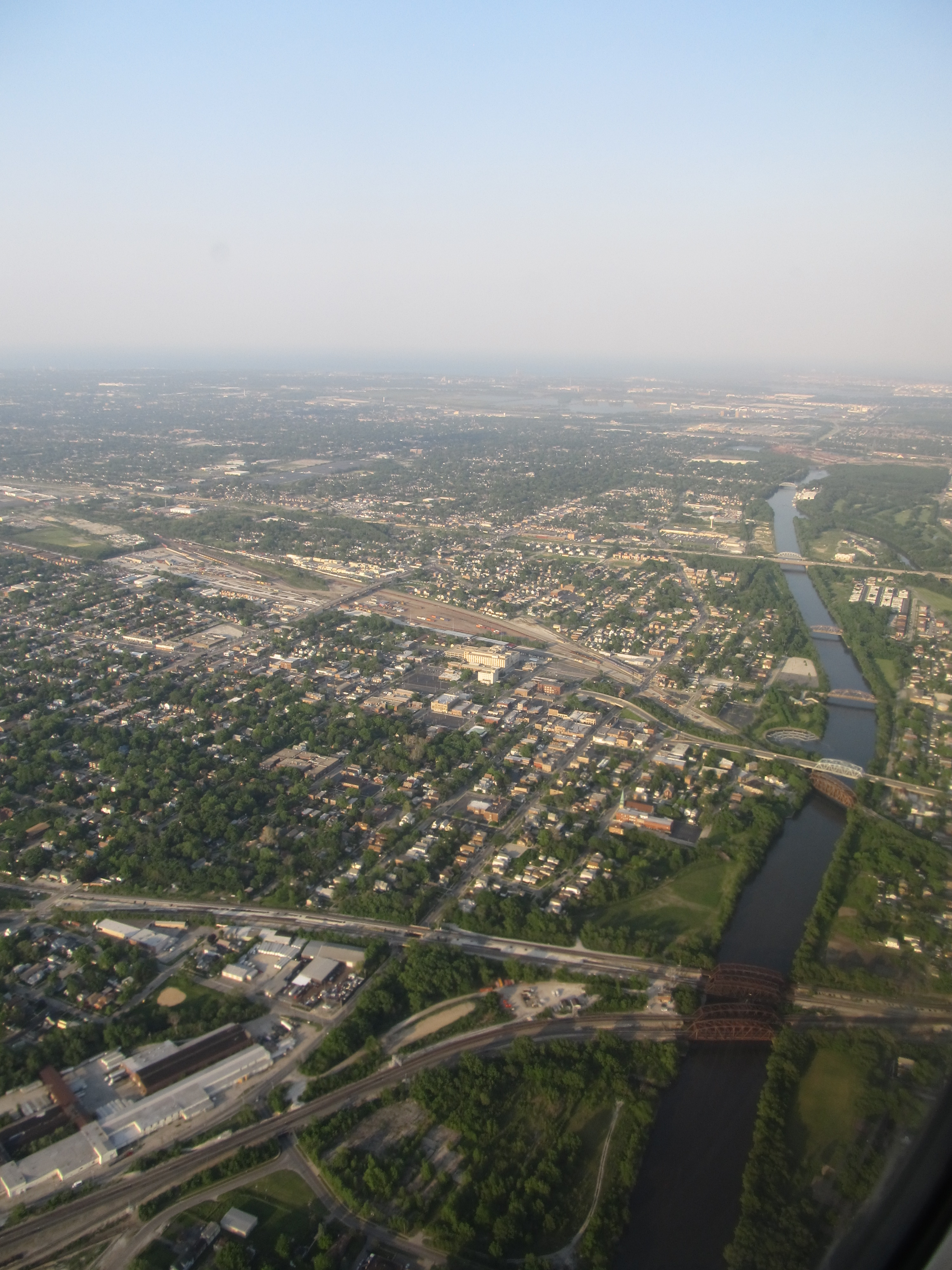 The Cal-Sag Channel (short for "Calumet-Saganashkee Channel") is a navigation canal in southern Cook County, Illinois. It serves as a channel between the Little Calumet River and the Chicago Sanitary and Ship Canal. It is 16 miles (26 km) long and was dug over an 11-year period, from 1911 until 1922. The Cal-Sag Channel serves barge traffic in what was an active zone of heavy industry in the far southern neighborhoods of the city of Chicago, Illinois and adjacent suburbs. As of 2006 it is also used more as a conduit for wastewater from southern Cook County, including the Chicago-area Deep Tunnel Project, into the Illinois Waterway. It is also used by pleasure crafts in the summer time. The western 4.5 miles (7.3 km) of the channel flow through the Palos Hills Forest Preserves, a large area of parkland operated by Cook County Forest Preserve District. The Cal-Sag Channel served as the rowing venue for the 1959 Pan American Games